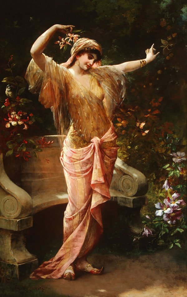 A Beautiful Arab Woman Dancing in a Flower Garden